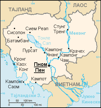 Map of Cambodia on Macedonian.